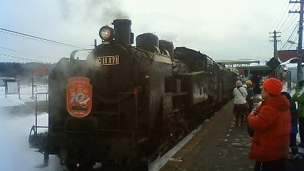 SL Fuyu-no Shitsugen-go, Shibecha.